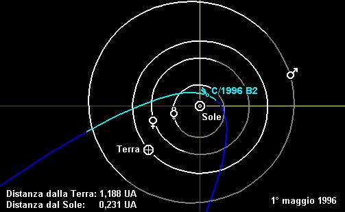 Part of the orbit of the comet C/1996 B2 (Hyakutake). In the picture, Comet Hyakutake is represented in the point of maximun approach to the Sun, on 1996, May 1st. Comet Sun distance and Earth distance are reported.